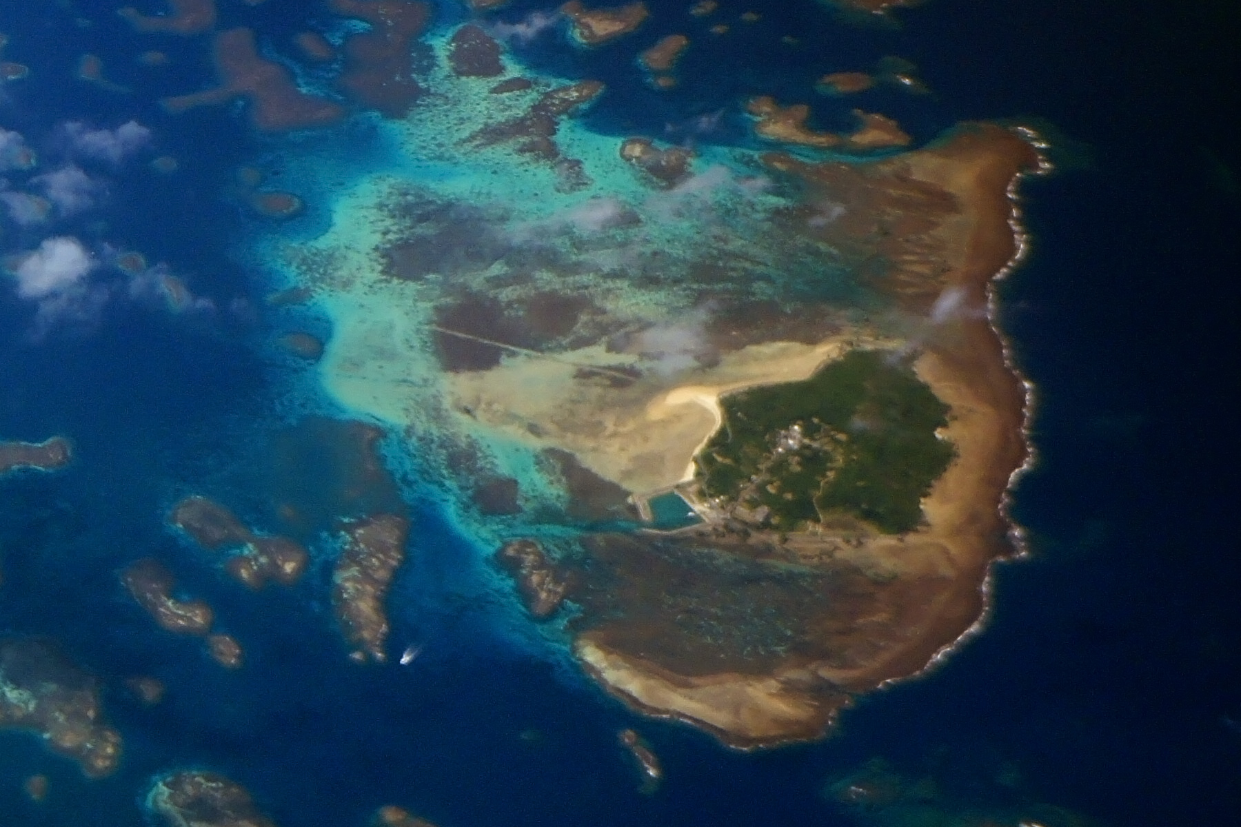 Ogamijima Island in Miyakojima, Okinawa Prefecture, Japan.